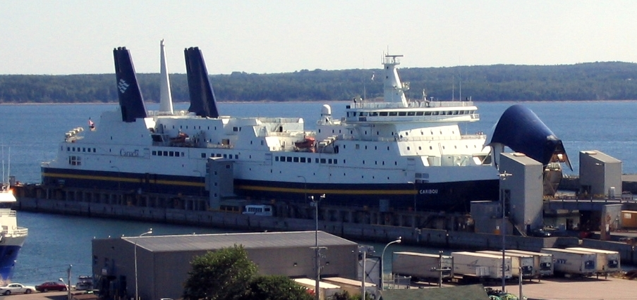 Harbour of North Sydney, Nova Scotia, with Newfoundland Ferry CARIBOU IMO number: 8301876 Callsigh: VOCZ